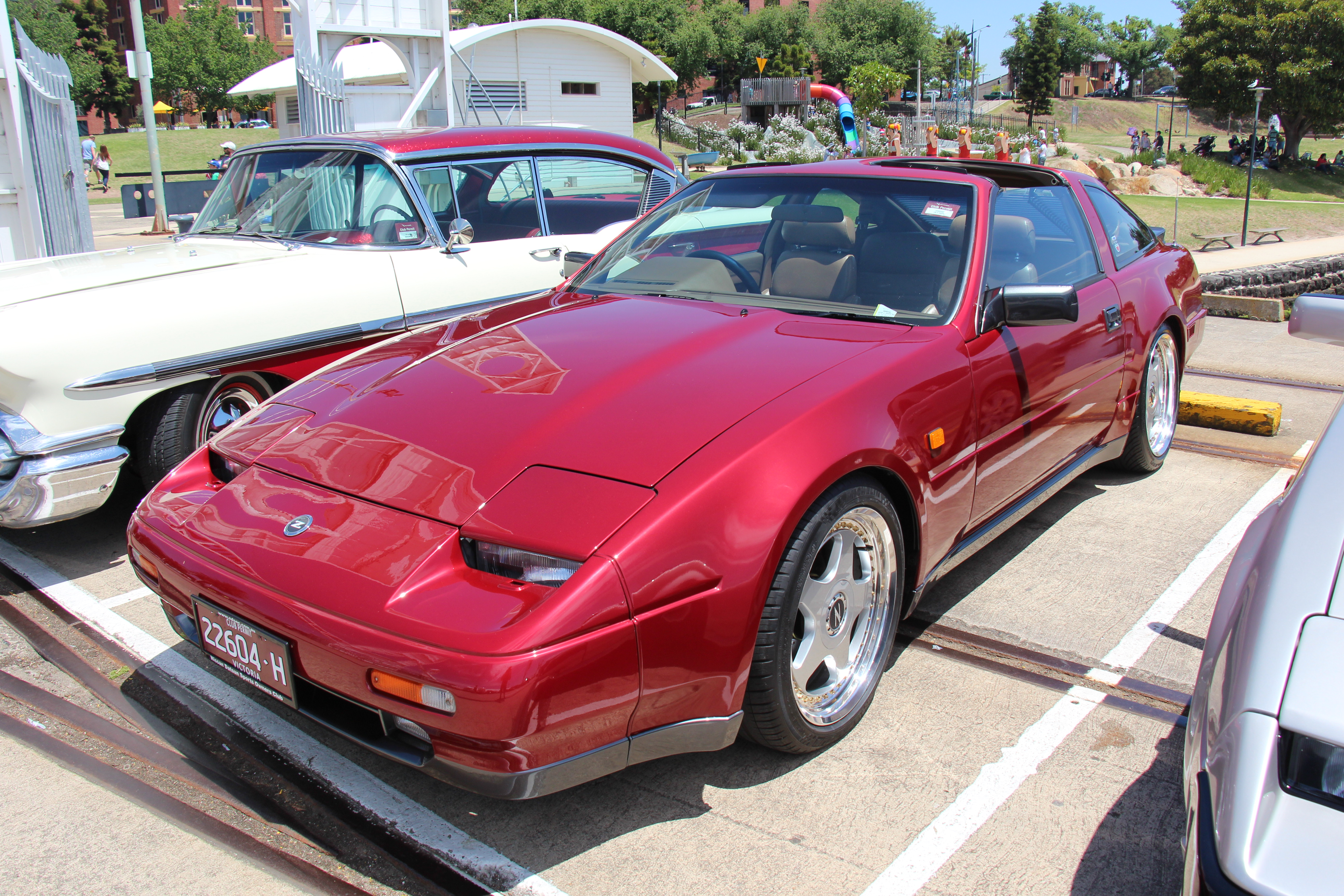 The 300ZX replaced the 280ZX in 1983, they shared the same chassis. The 1st of them, the Z31 ran until 1989, when replaced by the more rounded shape Z32. The Z31 body was slightly restyled in 1986 with the addition of side skirts, fender flares Many black plastic trim pieces were also painted to match the body colour, and the hood scoop was removed. The car was given a final makeover in 1987 that included more aerodynamic bumpers, fog lamps within the front air dam In Japan, the Z31 was available with either the 2.0 turbo straight 6 RB20DET, 2.0 turbo V6 VG20ET, 3.0 V6 SOHC VG30E, 3.0 turbo V6 SOHC VG30ET or 3.0 turbo DOHC VG30DE. In Australia, all Z31 300ZX's were 2+2 T-top body. The 1984 and '85 cars were all naturally aspirated (166hp), while the 1986 to 88 were turbocharged (208hp)